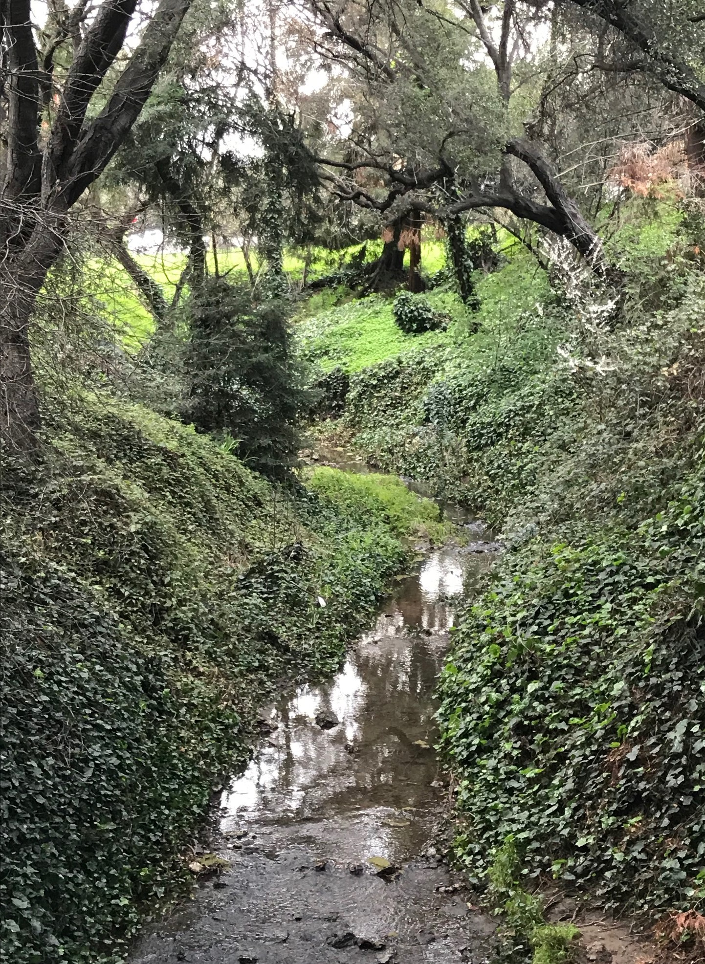 Glen Echo Creek running through Oak Glen Park in Oakland, California